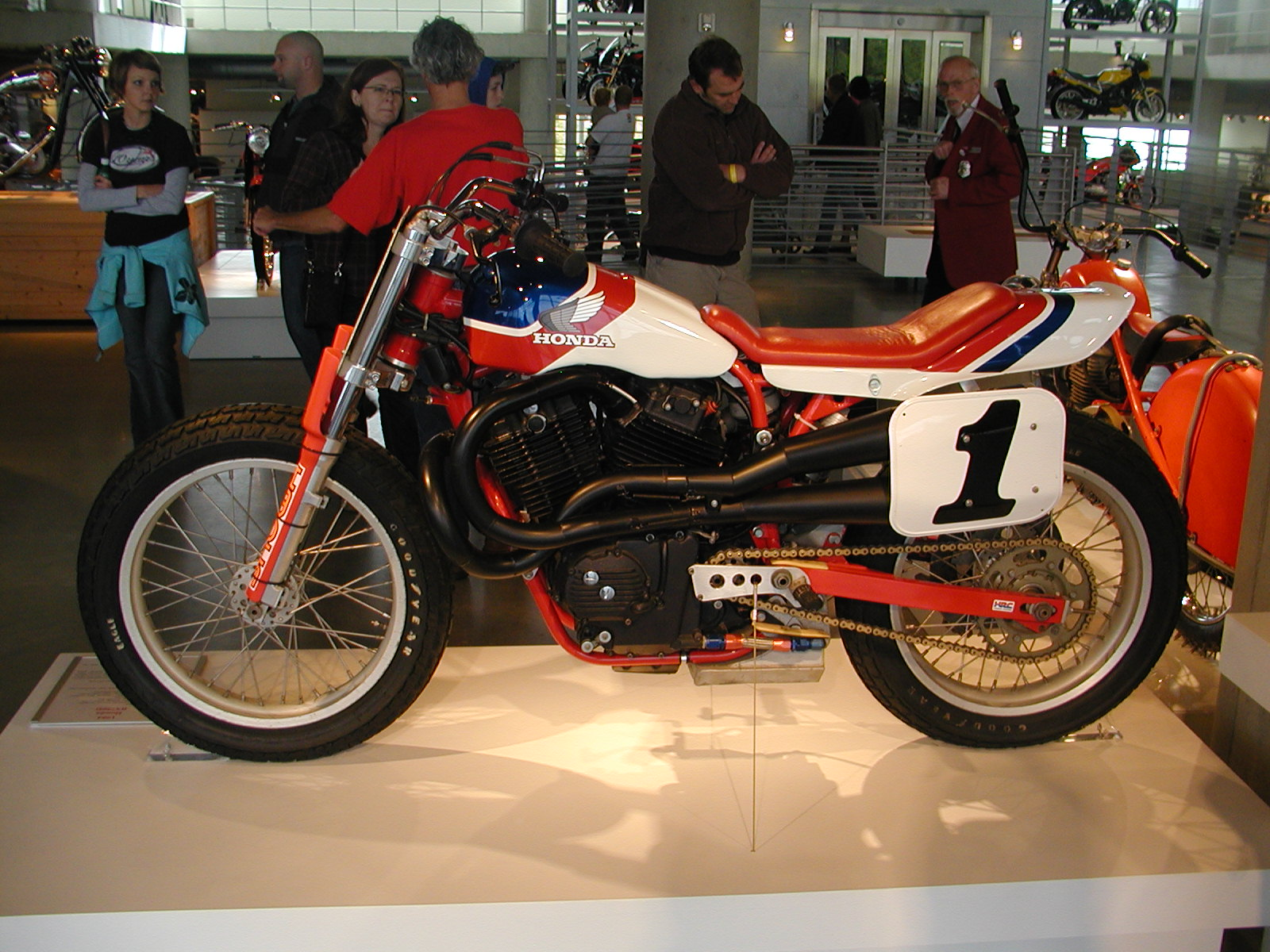 Barber Motorcycle Museum - Oct 22 2006 (207) 1984 Honda RS750D More Description is here